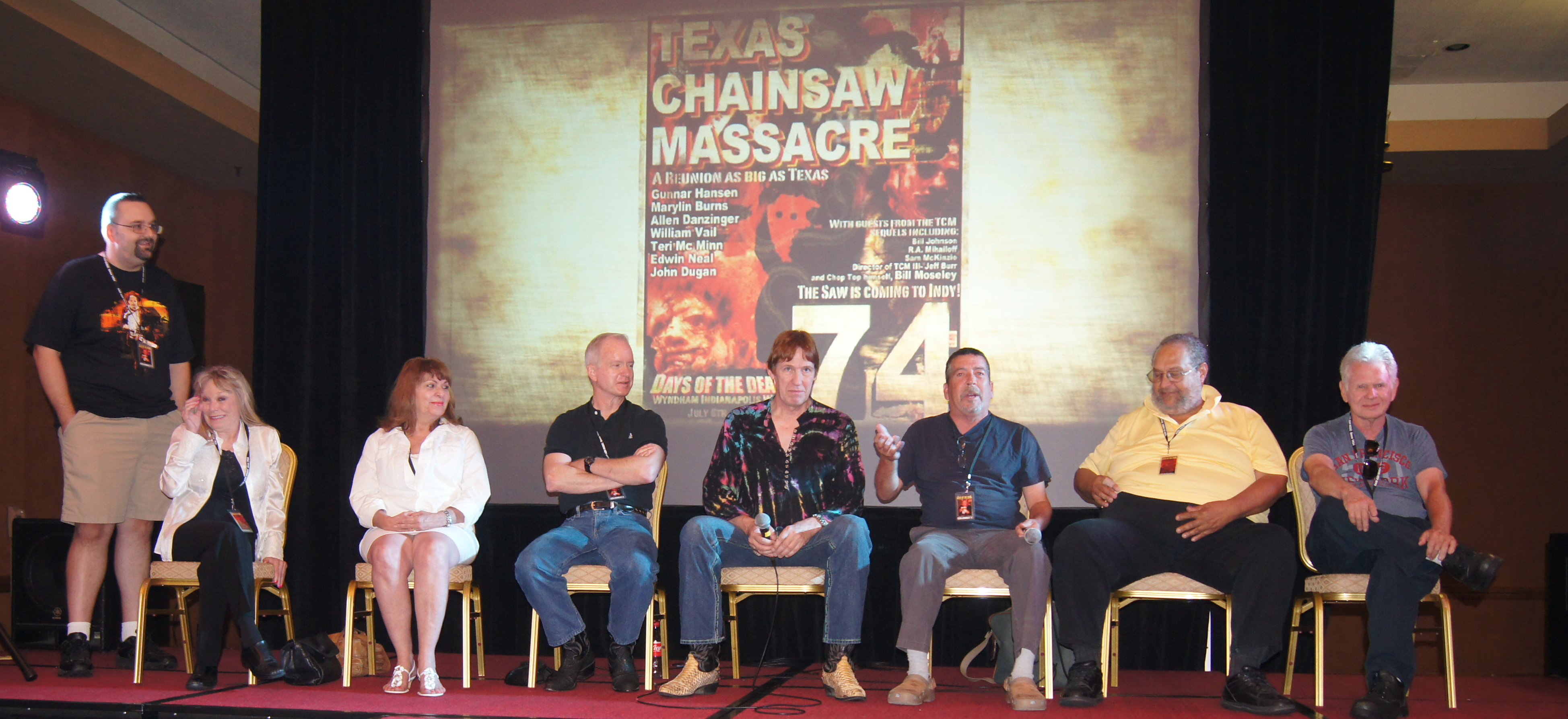 (Seated, L-R) Marilyn Burns, Teri McMinn, William Vail, Ed Neal, John Dugan, Ed Guinn, Allen Danziger from the TCM panel at Days of the Dead Indianapolis 2012.